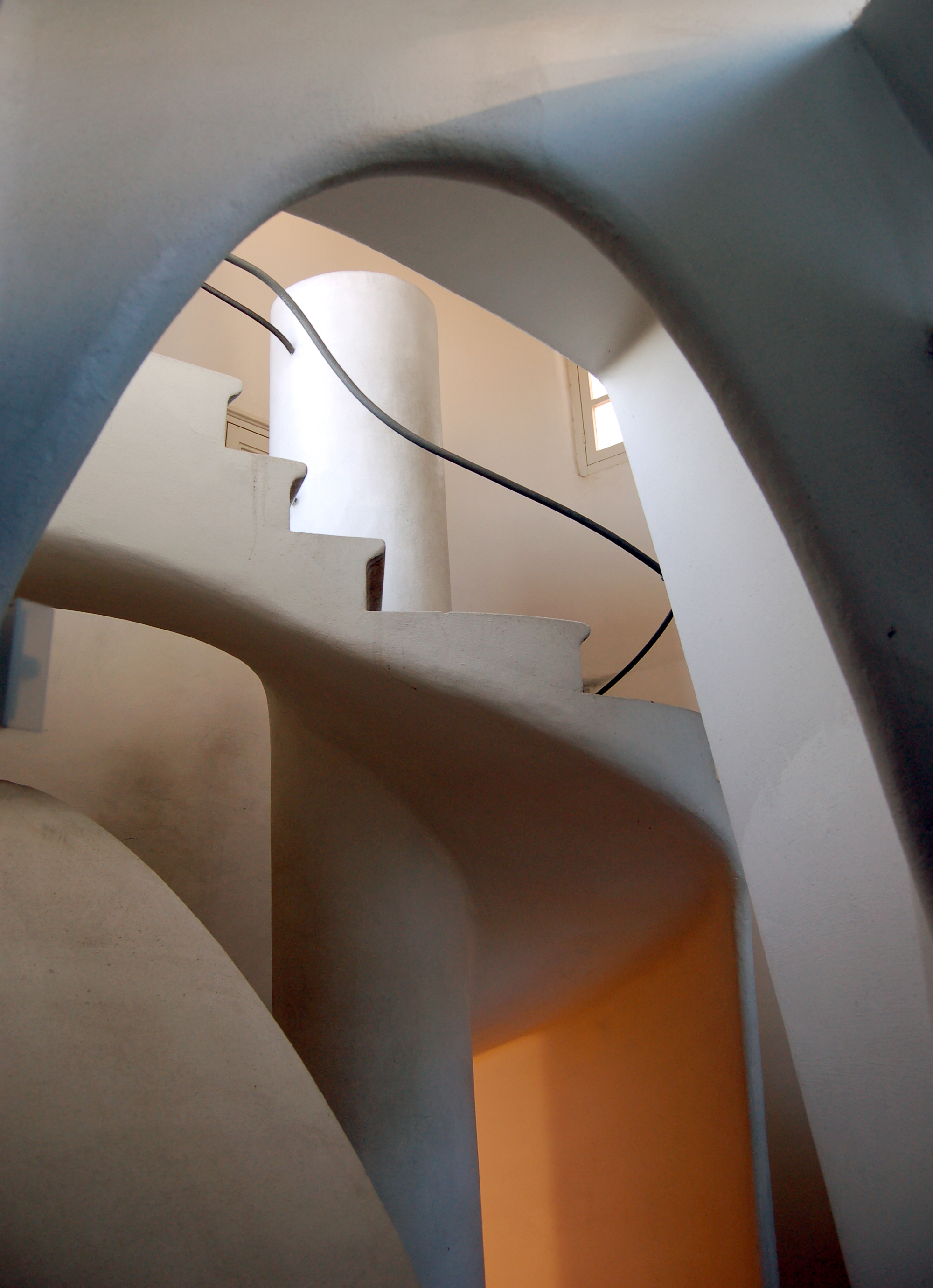 Arch and spiral staircase. Antoni Gaudi was part of the art nouveau. In this photo you can clearly see the way he used whiplash lines and how he designed the curve of the arches.